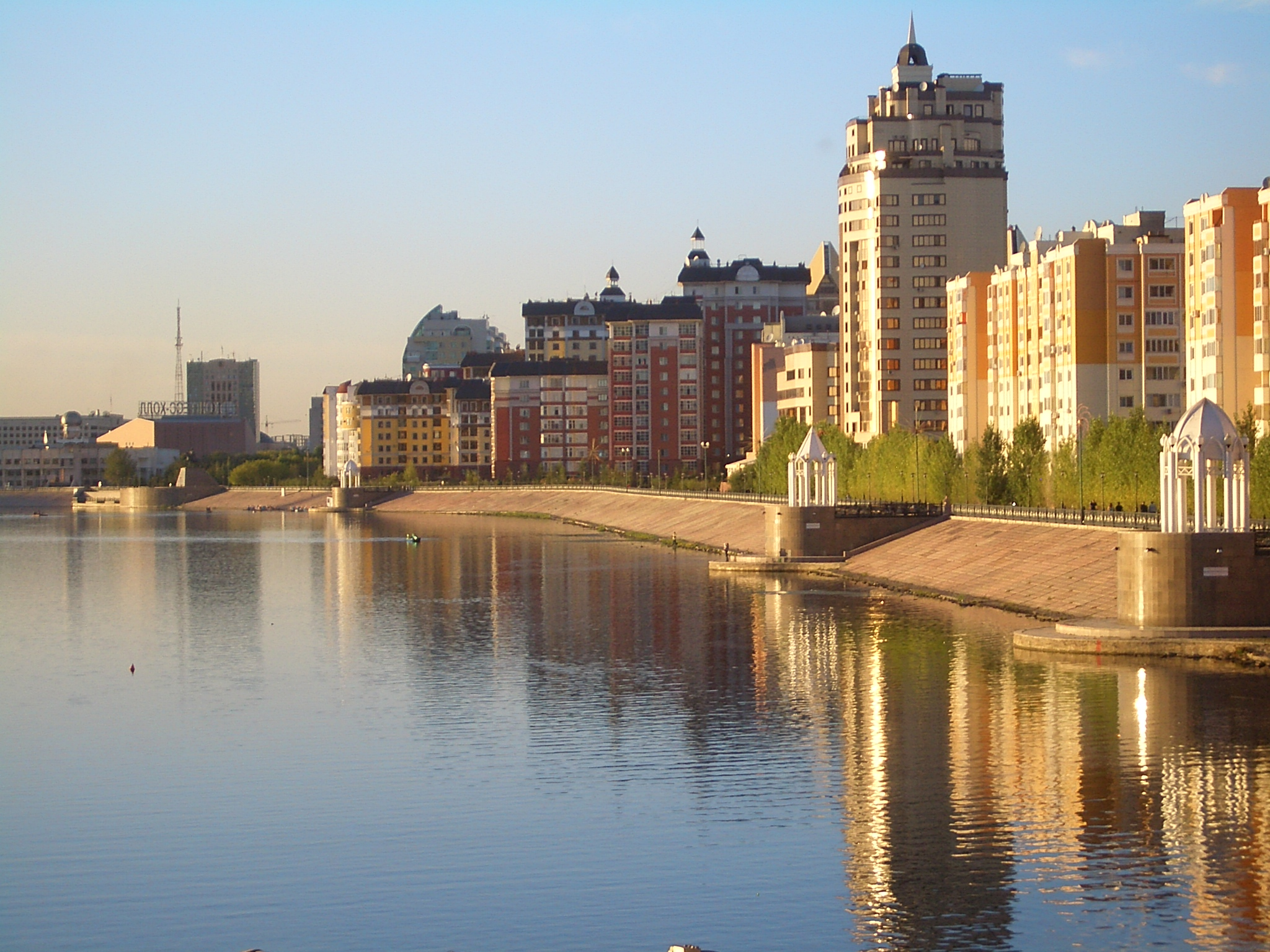 New building along the embankment on the right (north) bank of the Ishim River in Nur-Sultan, Kazakhstan. This roughly across the river from the city park.